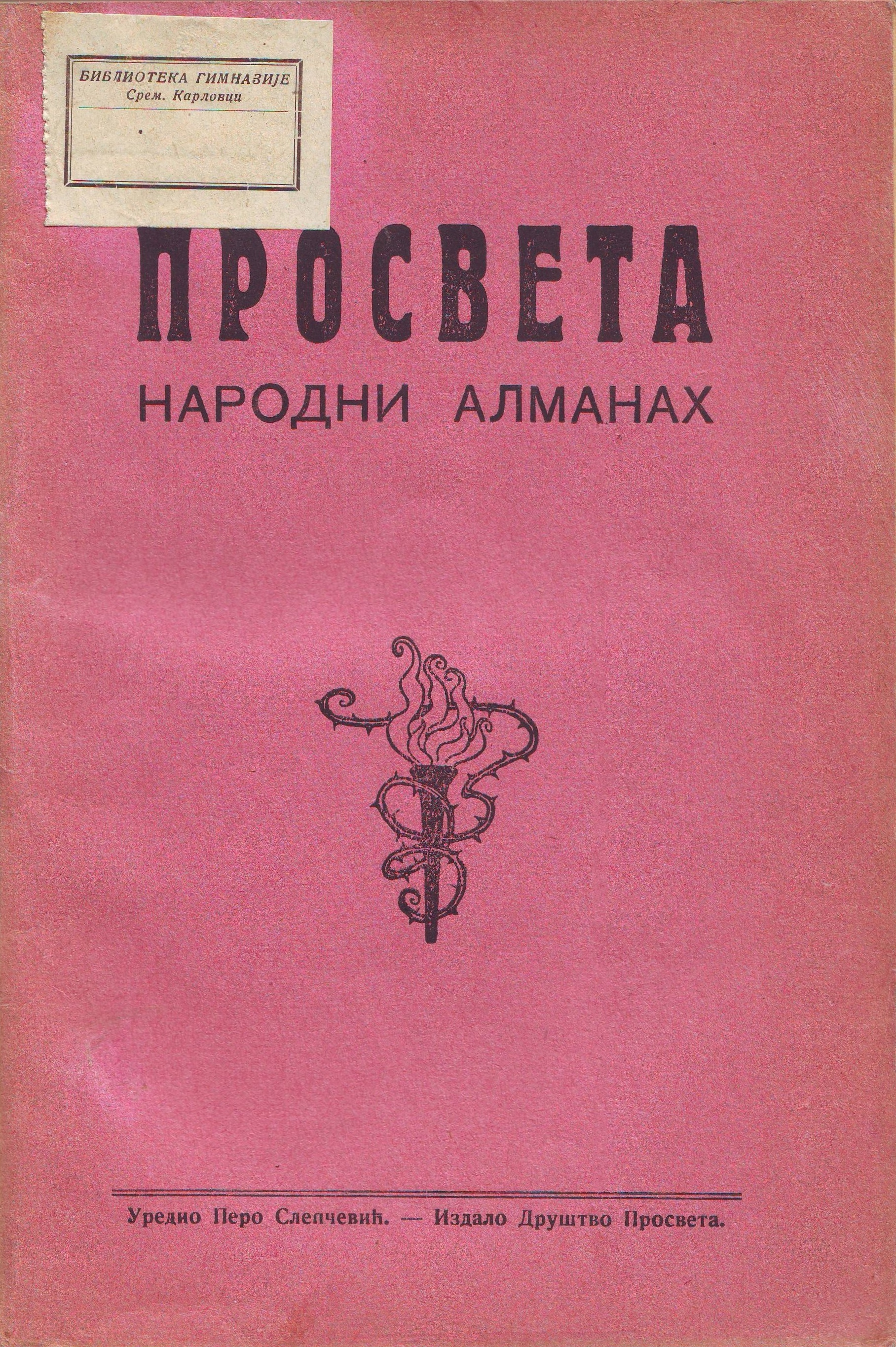 Cover of the people's almanac Prosveta. Srpski (latinica): Naslovna strana narodnog almanaha Prosveta.